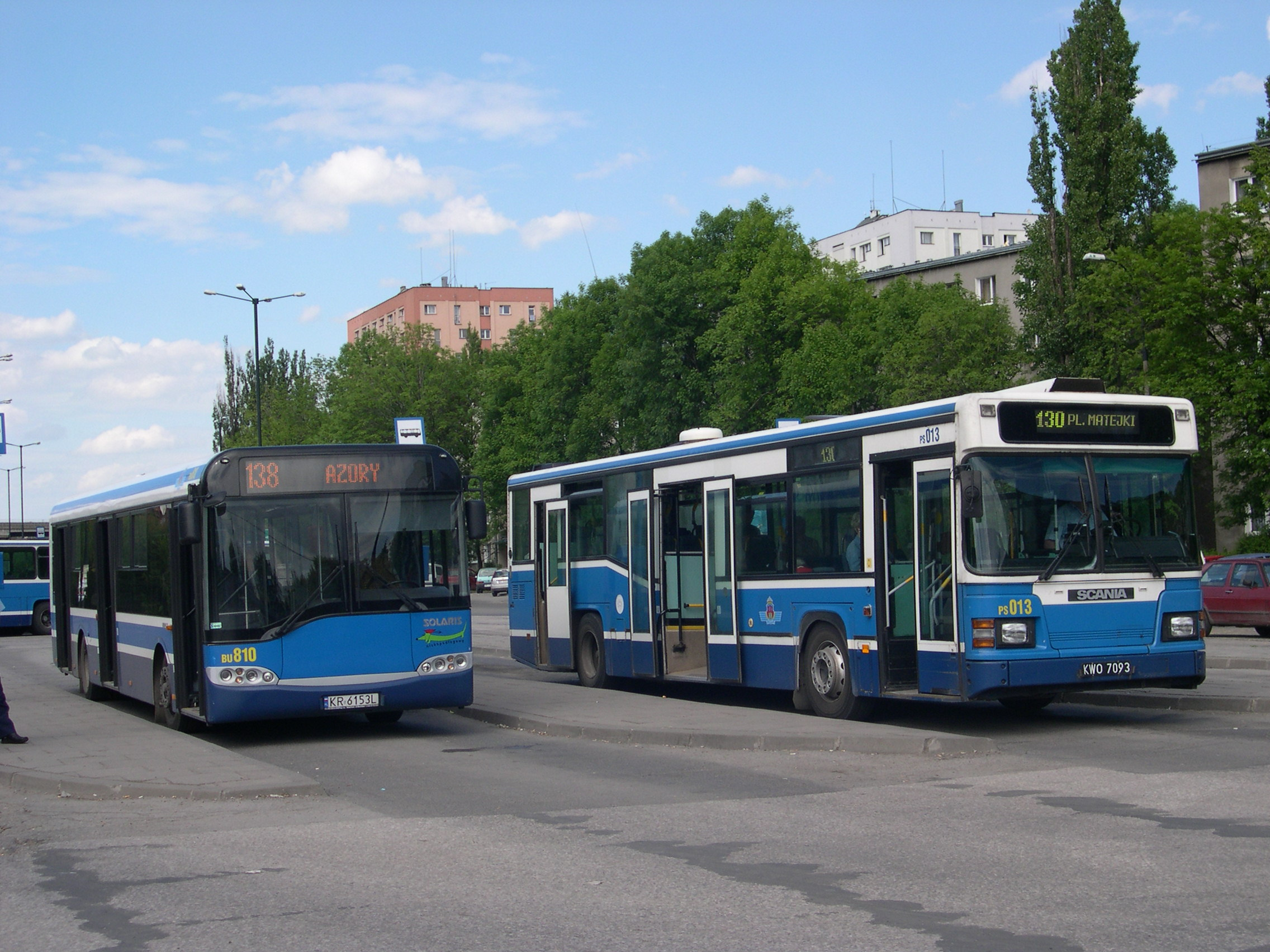 Buses in Kraków-Azory, Poland. From left to right: Solaris Urbino 12 Mk2 (built 2004, #BU810) and Scania CN113CLL (built 1995, #PS013) from MPK Kraków.